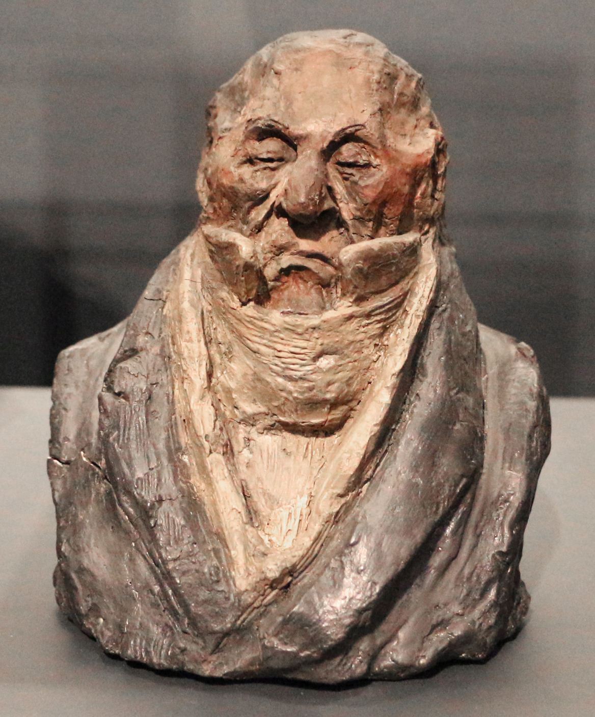 Célébrités du Juste Milieu